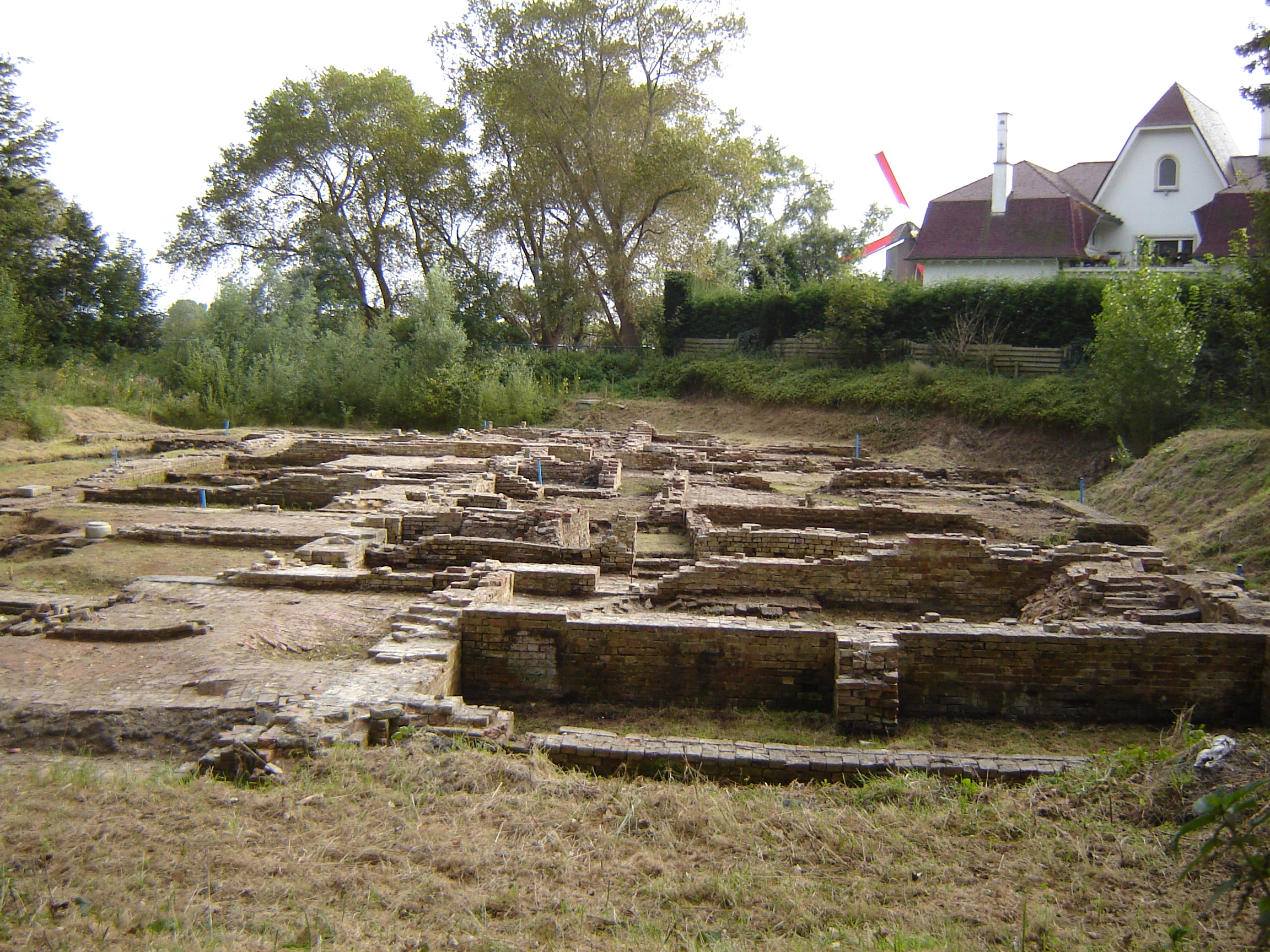 Ruins and excavations of the former Cistercian abbey Onze-Lieve-Vrouw Ten Duinen (Our Lady of the Dunes) in Koksijde. Koksijde, West Flanders, Belgium